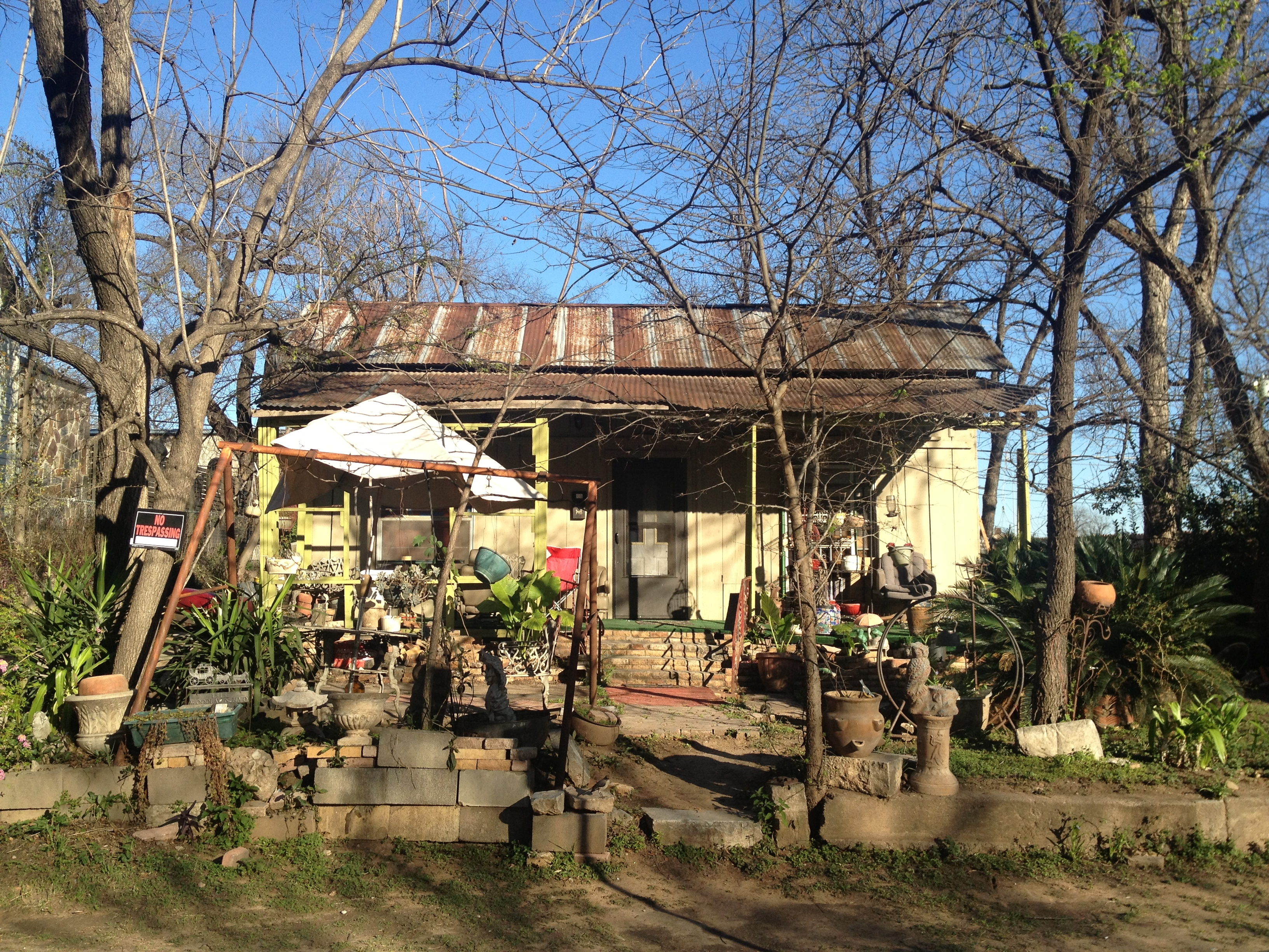 Lovely old house down Rainey Street, Austin TX